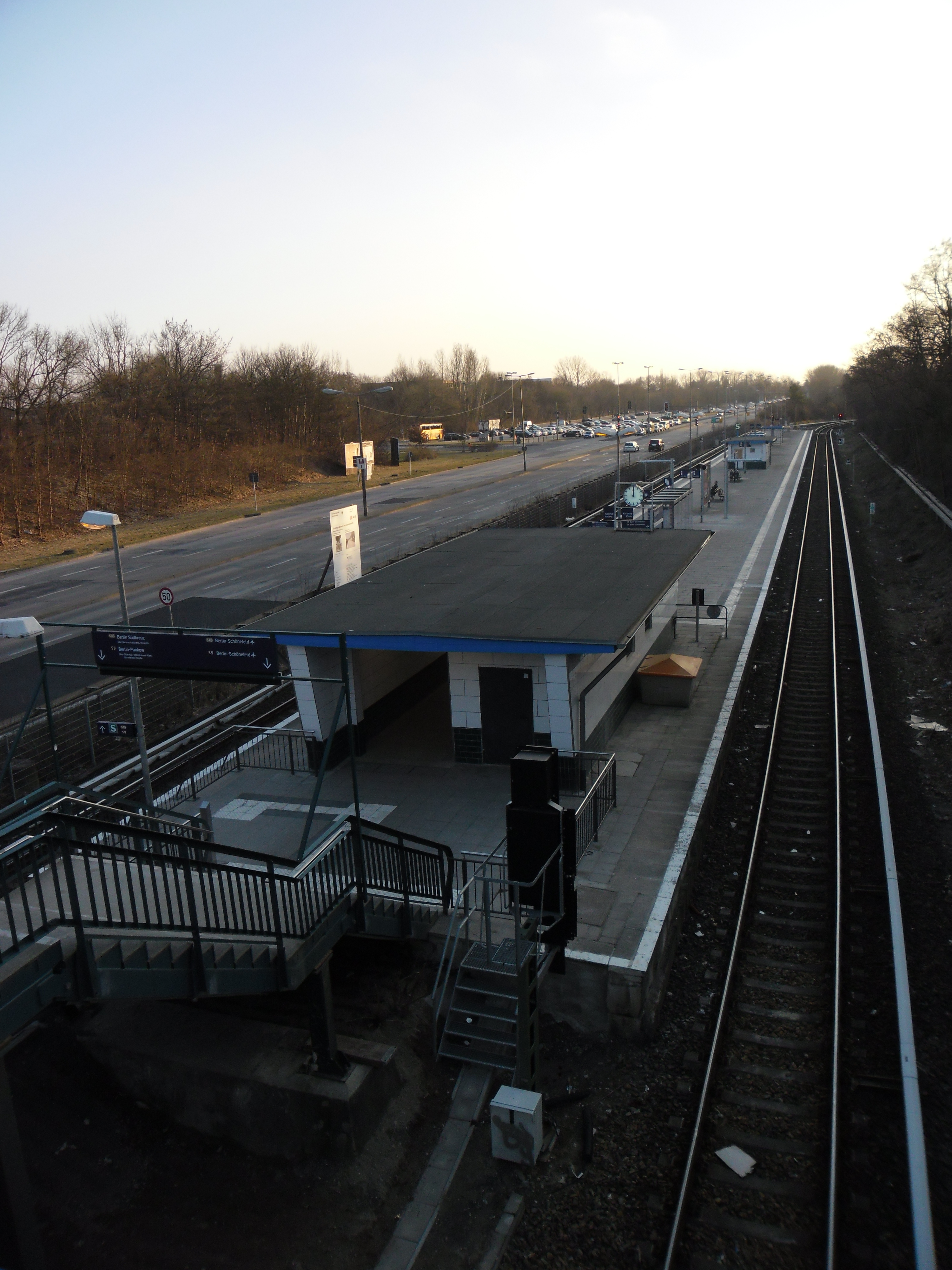 Altglienicke station